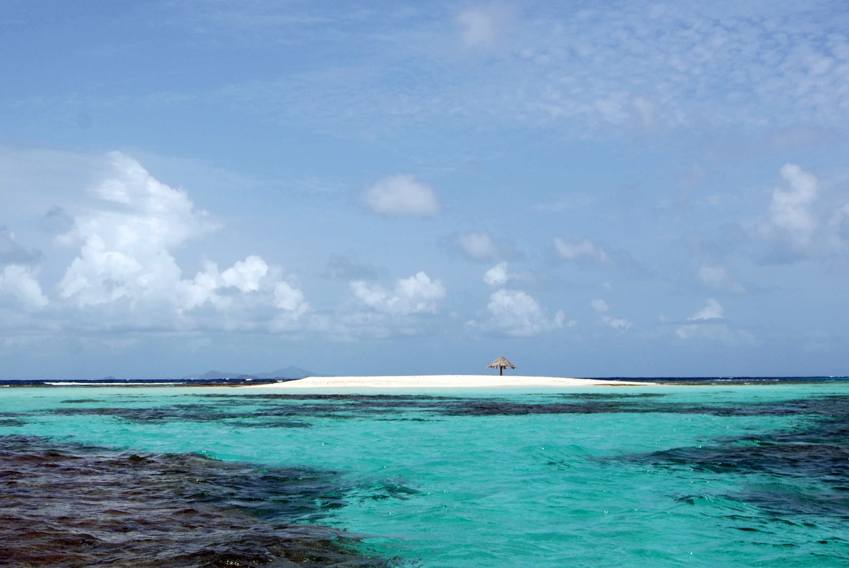 Mopion ahead of Petit St. Vincent